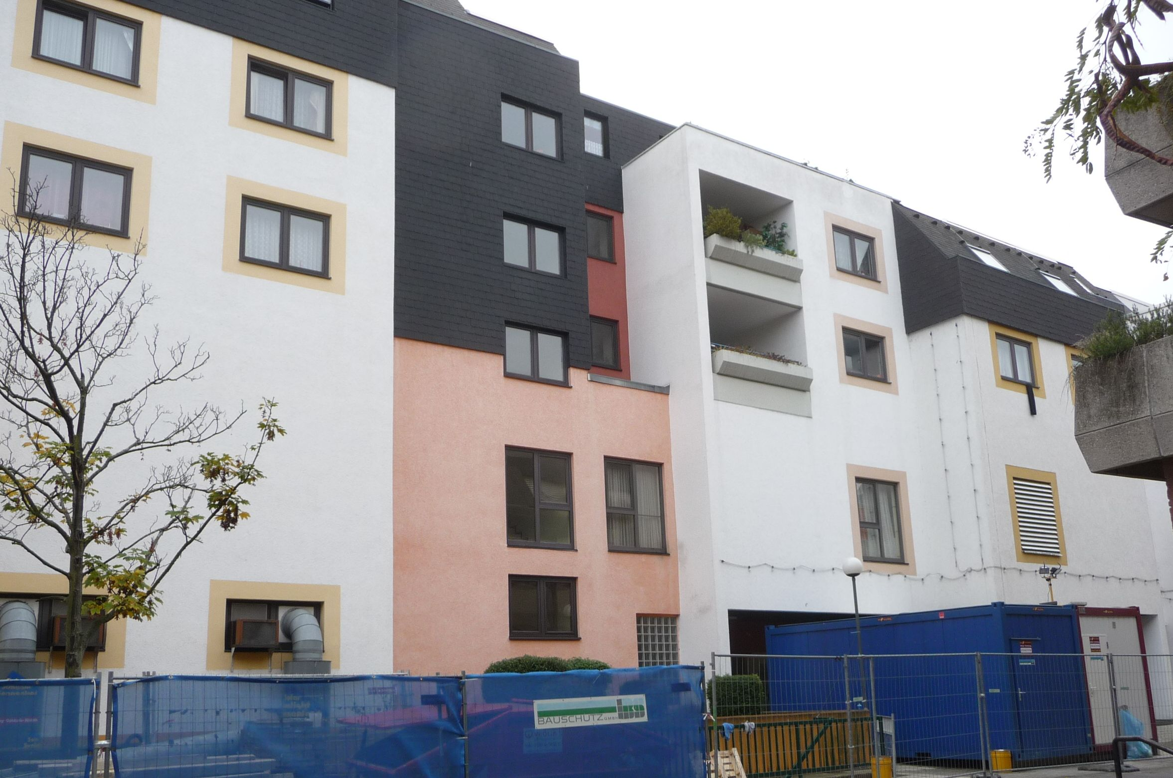 Neustadt an der Weinstraße